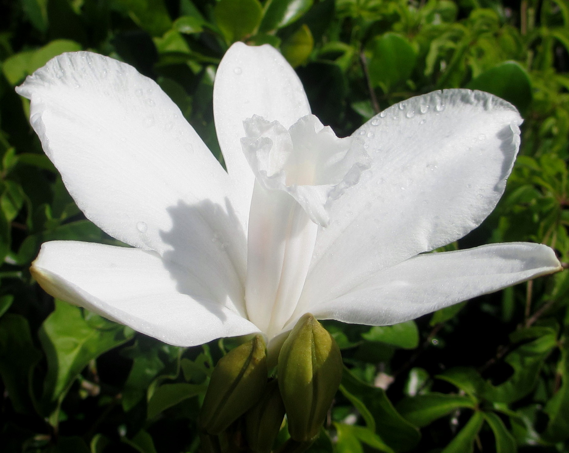 In the wild on the North Mozambique coast (Mecufi District). Spectacular, large white orchids on succulent, leaf-less lianas.